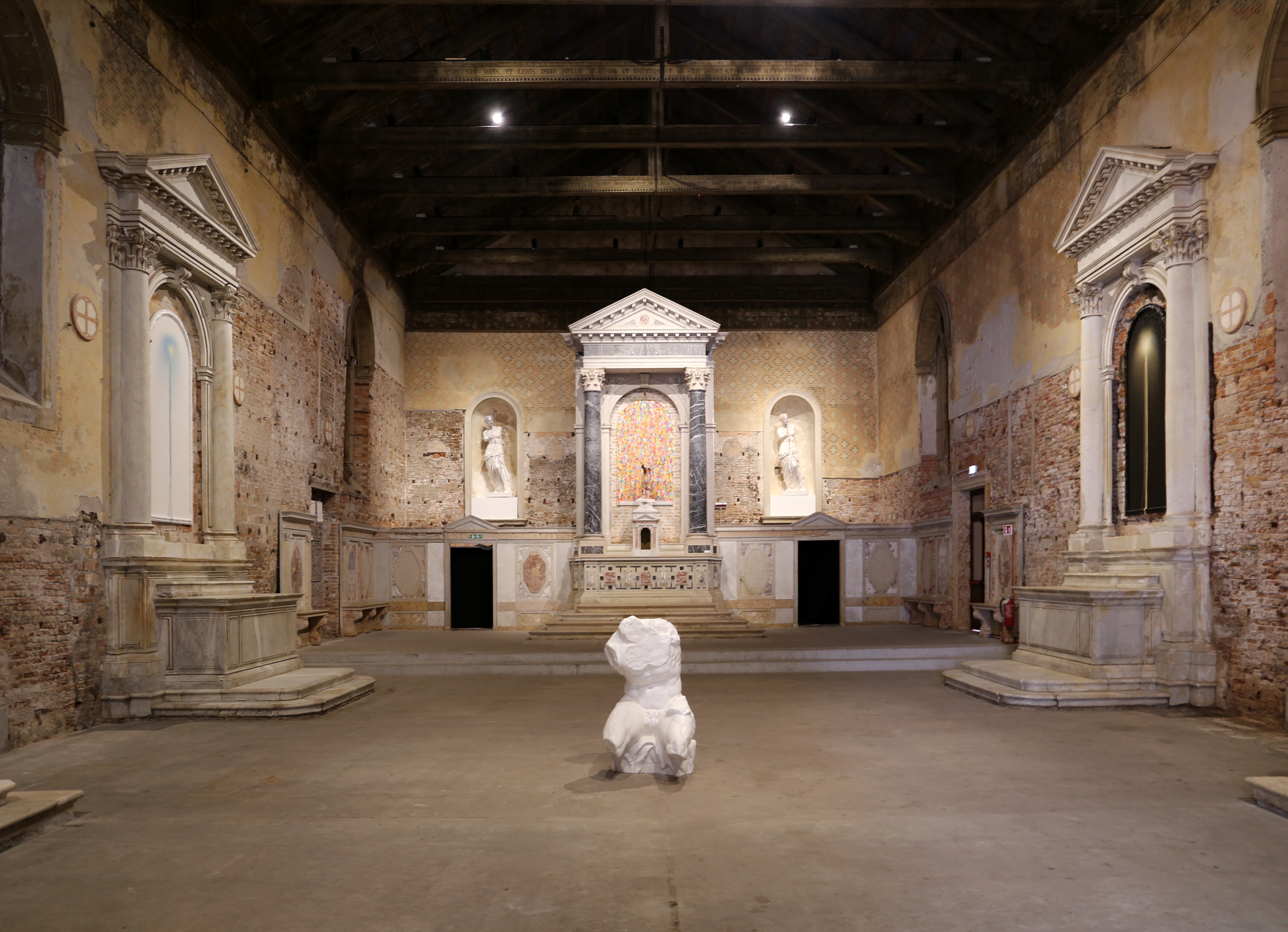 Santa Maria della Misericordia (Venice)